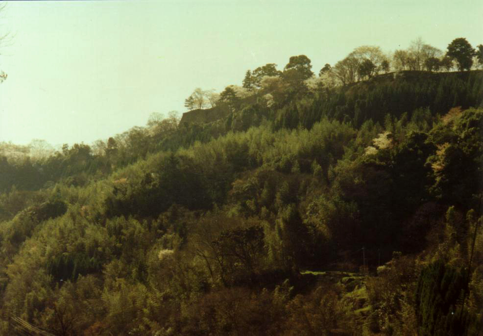 Oka Castle' (Oka-jō) is a castle in Taketa, Oita, Japan. It had been the government office of Oka Clan (Oka Han) during the Edo period.